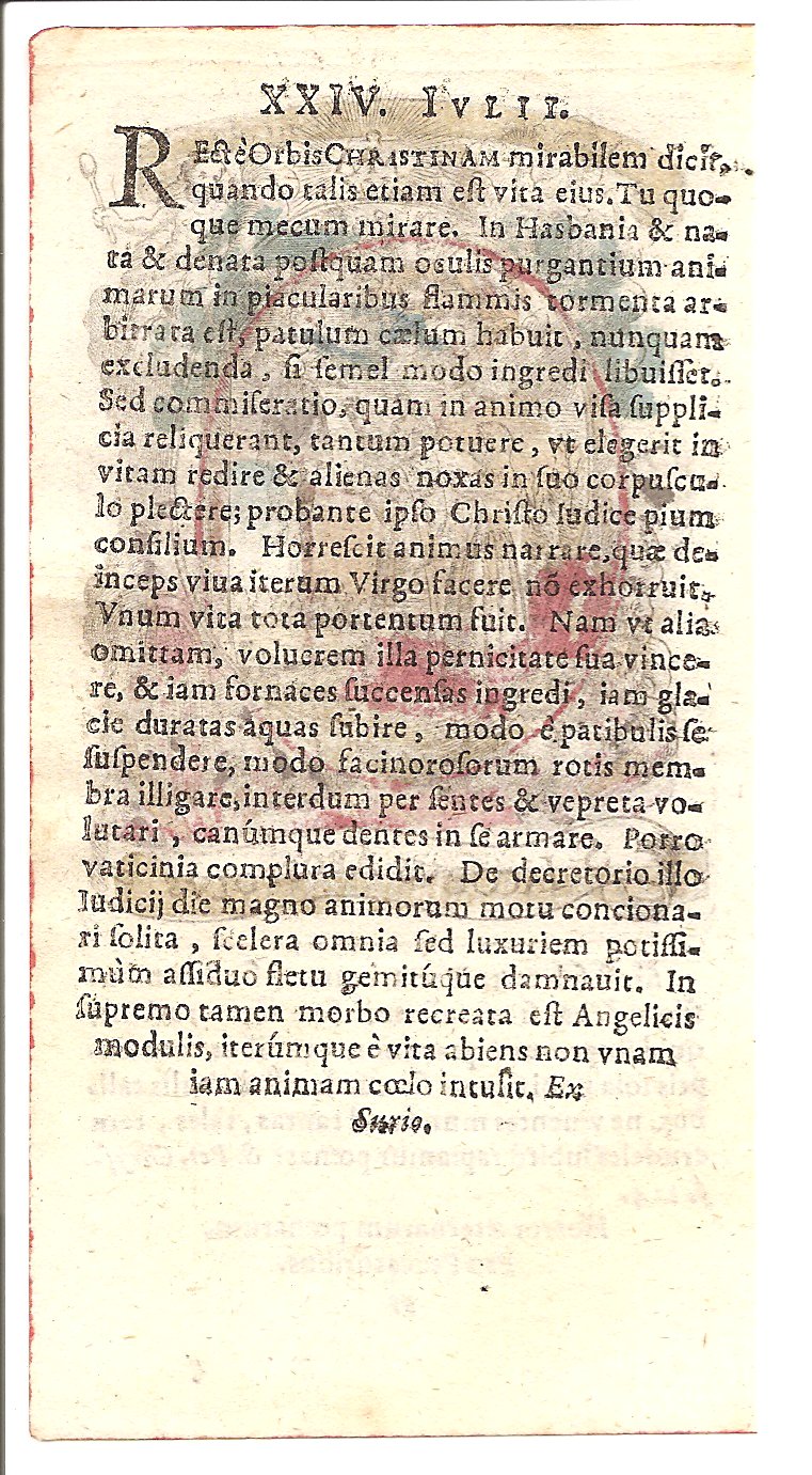 Christina the Astonishing appearing in the 1630 Fasti Mariani calendar of saints - feast day July 24th back of card